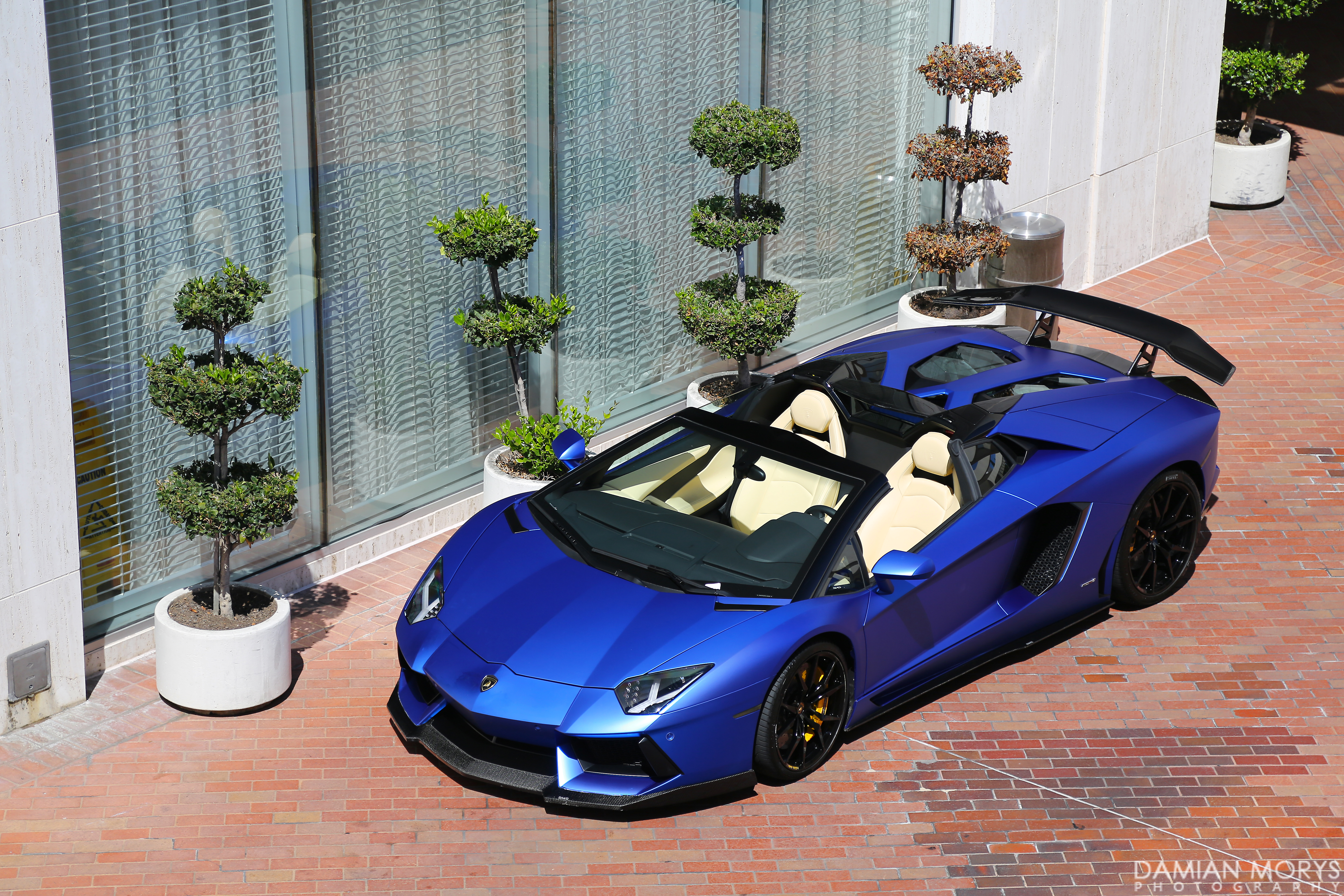 The sickest Aventador Roadster on the planet